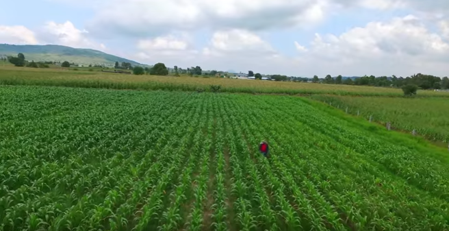 Sembradíos